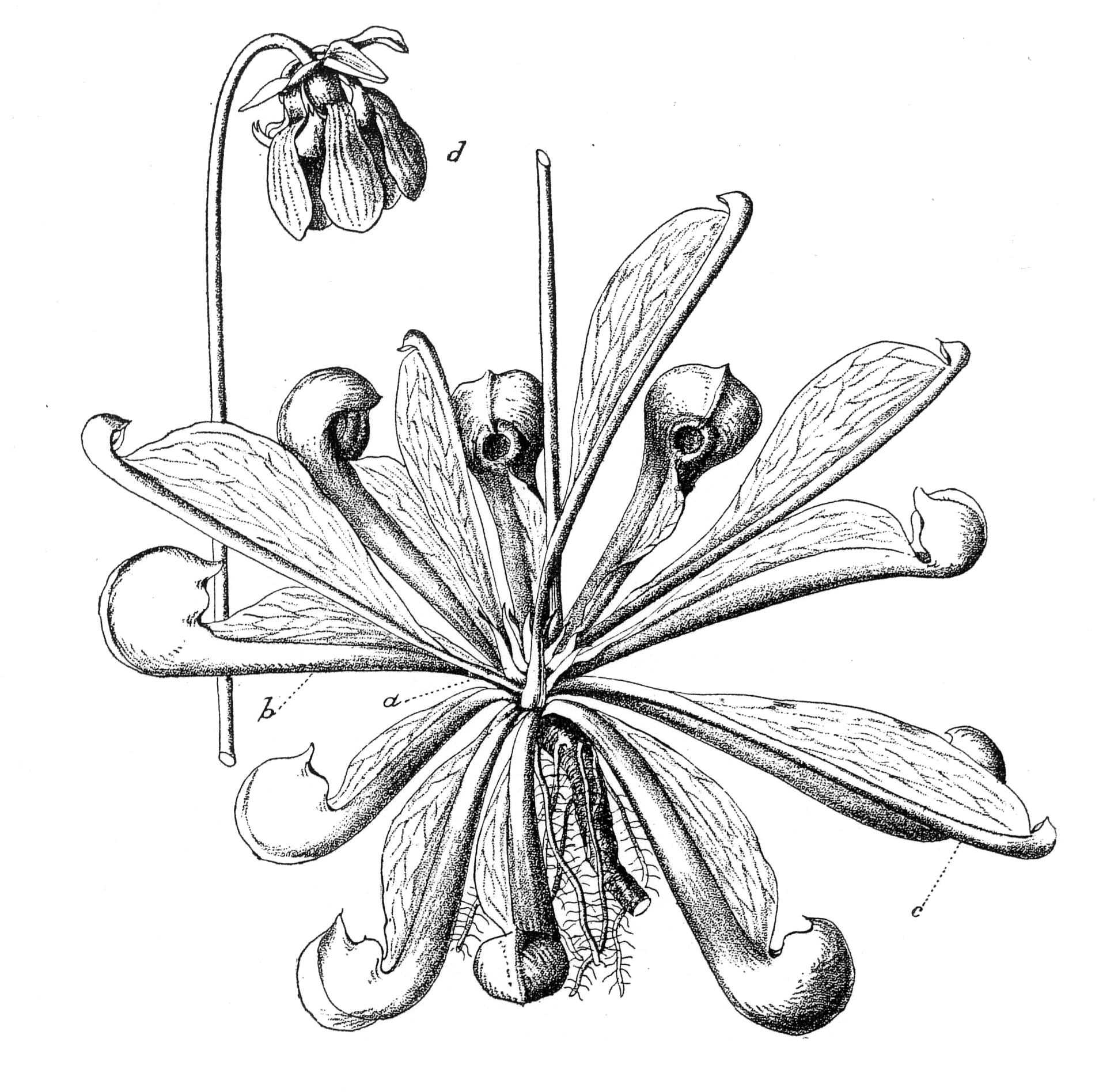 "Sarracenia psittacina Michx. a scale leaves, b pitchered leaves, c laminar phyllodia, d flower."